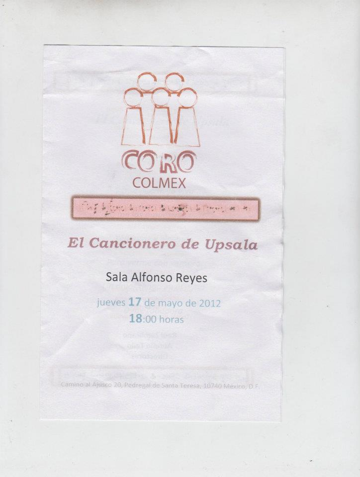 Musical program: Coro Colmex (El Colegio de México)